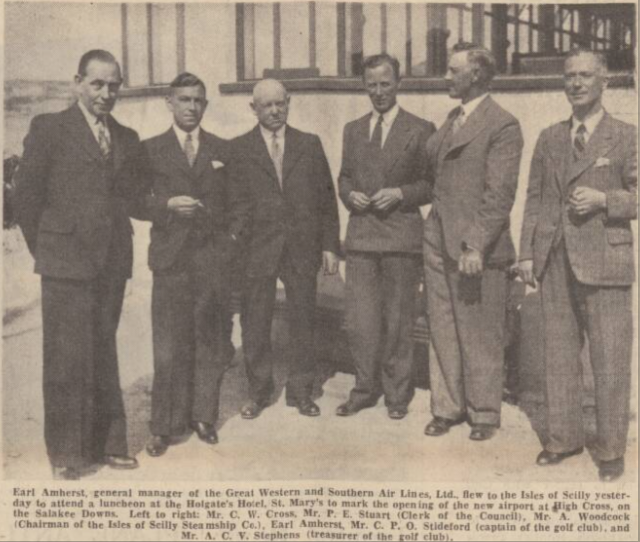 Western Morning News - Thursday 17 August 1939. Page 8. Earl Amherst, general manager of the Great Western and Southern Air Lines Ltd., flew to the Isles of Scilly yesterday to attend a luncheon at the Holgate’s Hotel, St Mary’s to mark the opening of the new airport at High Cross on the Salakee Downs. Left to right: Mr. C.W. Cross, Mr. P.E. Stuart (Clerk of the Council), Mr. A. Woodcock (Chairman of the Isles of Scilly Steamship Co.), Earl Amherst, Mr. C.P.O. Stideford (captain of the golf club), and Mr. A.C.V. Stephens (treasurer of the golf club).